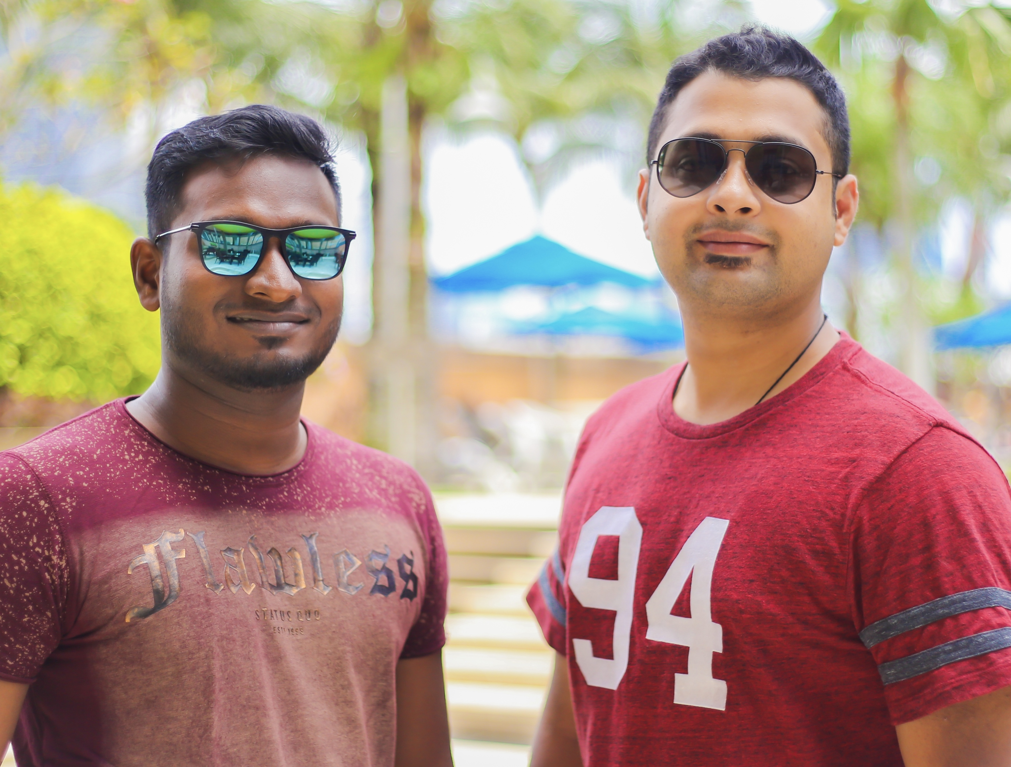 VIVEK & MERVIN ,THE MUSIC COMPOSER DUO FROM CHENNAI